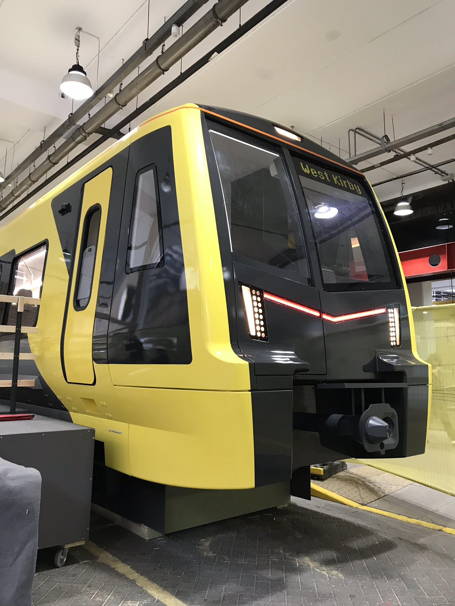 This is the new Class 777 Displayed at Liverpool Lime Street which will be merseyrails new train fleet coming into service in 2020 and fully 2021